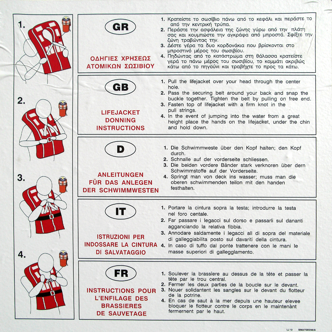 Lifejacket instructions on F/B Ionian King